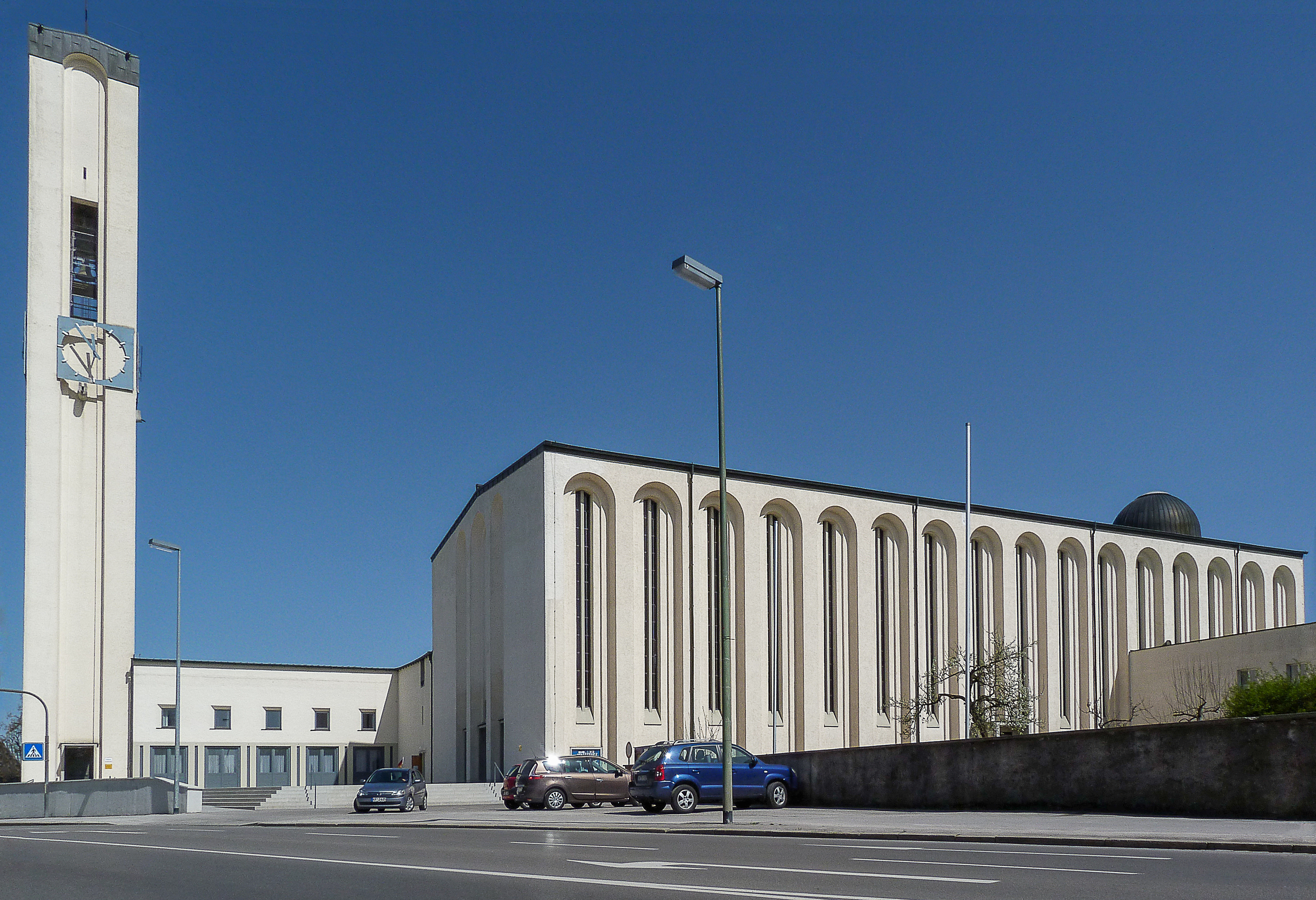 Herz-Jesu-Kirche in Neugablonz